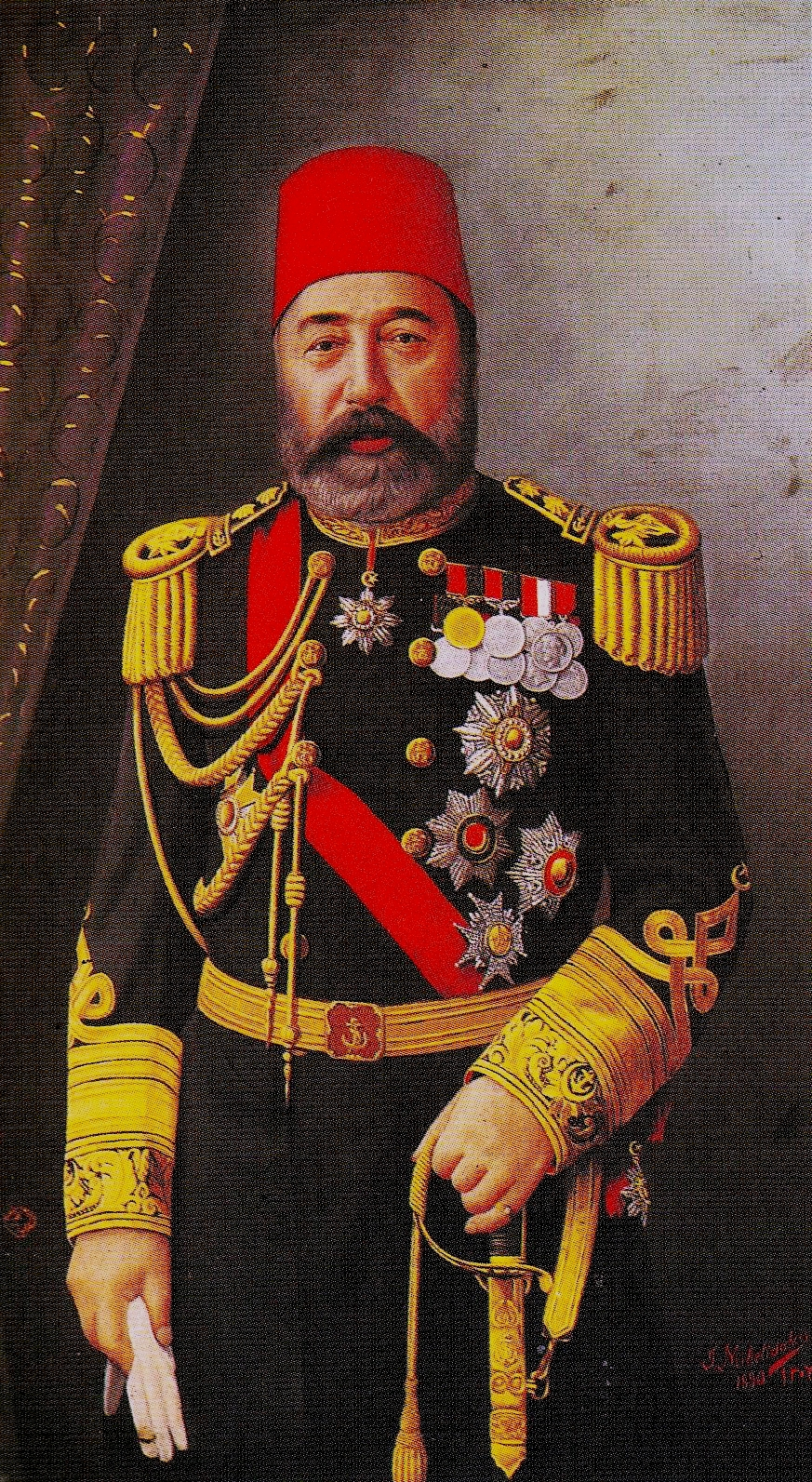 Bozcaadalı Hasan Hüsnü Paşa (1832-1903), the head of the Ottoman navy (1889). He was the commander in charge of the Minister of the Navy. - II. Abdülhamid döneminde Bahriye Nazırlığı görevinde bulunmuş amiraldir. بوزجالدي حسن حٌسنو باشا ناظر البحرية (وزير) إبان حكم الخليفة العثماني عبد الحميد الثاني